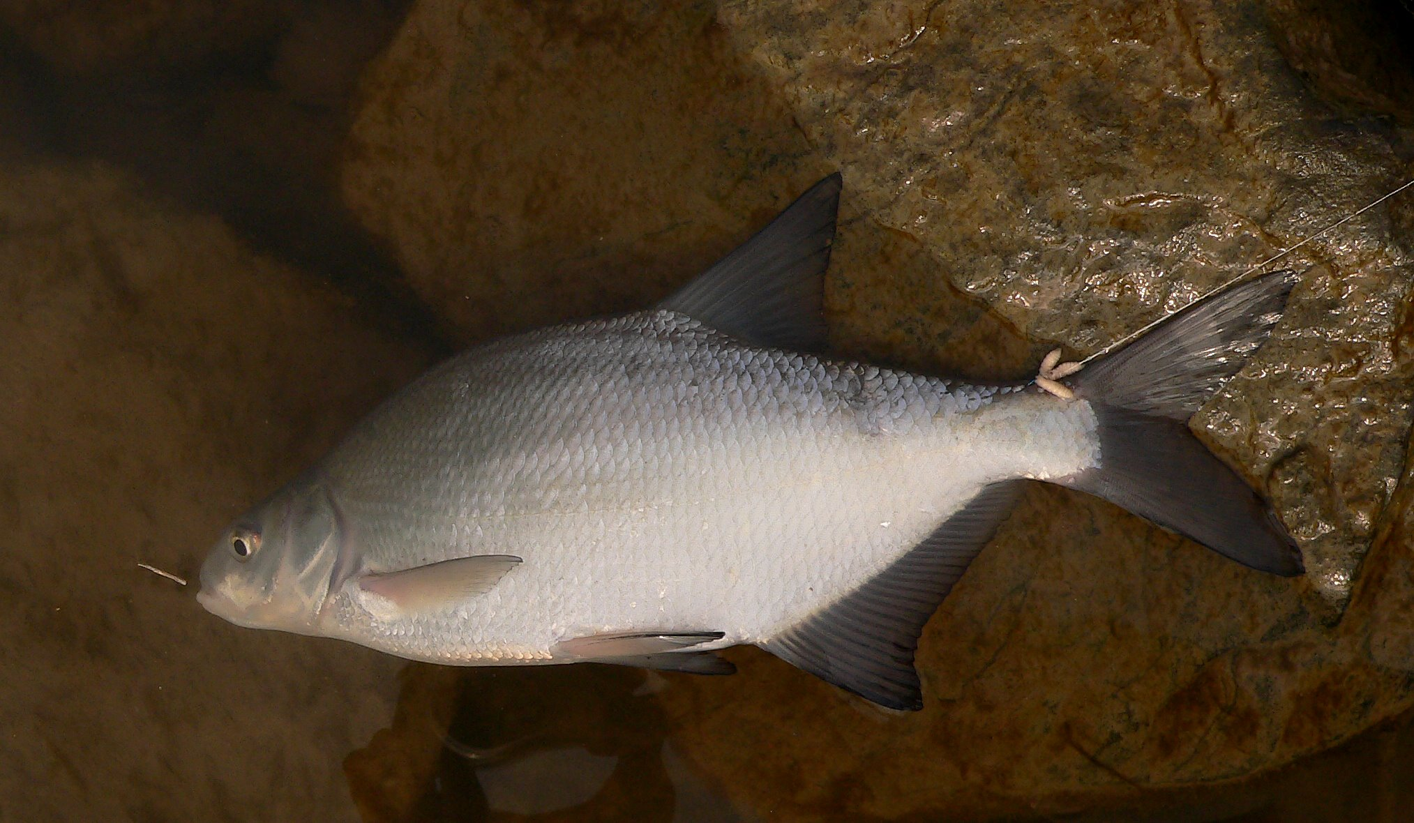 Carp Bream 35cm foul hooked Nederrijn, The Netherlands. Noter the dark large pointed fins and pointed head.